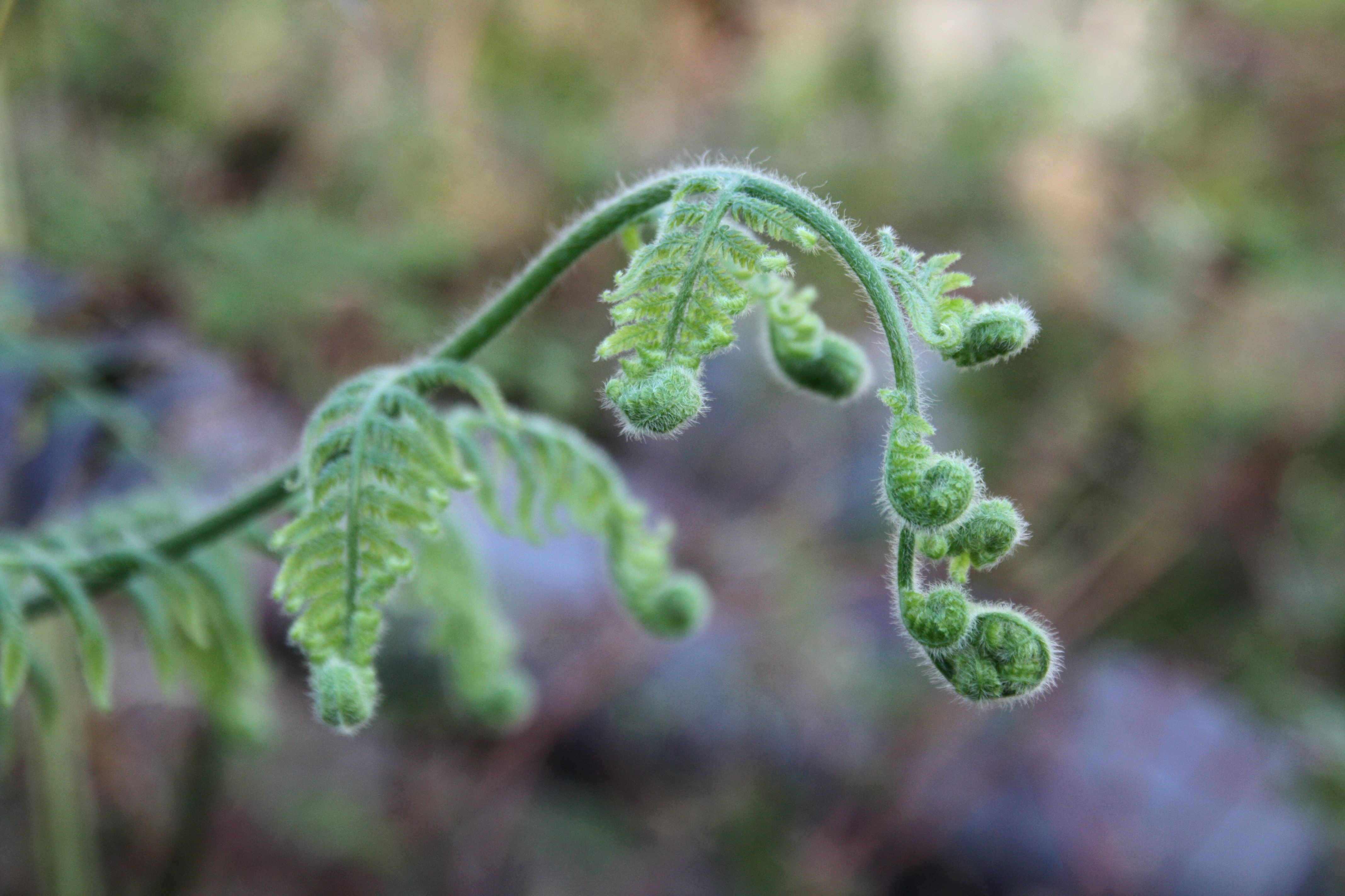 An unfurling fern frond covered in small trichomes.